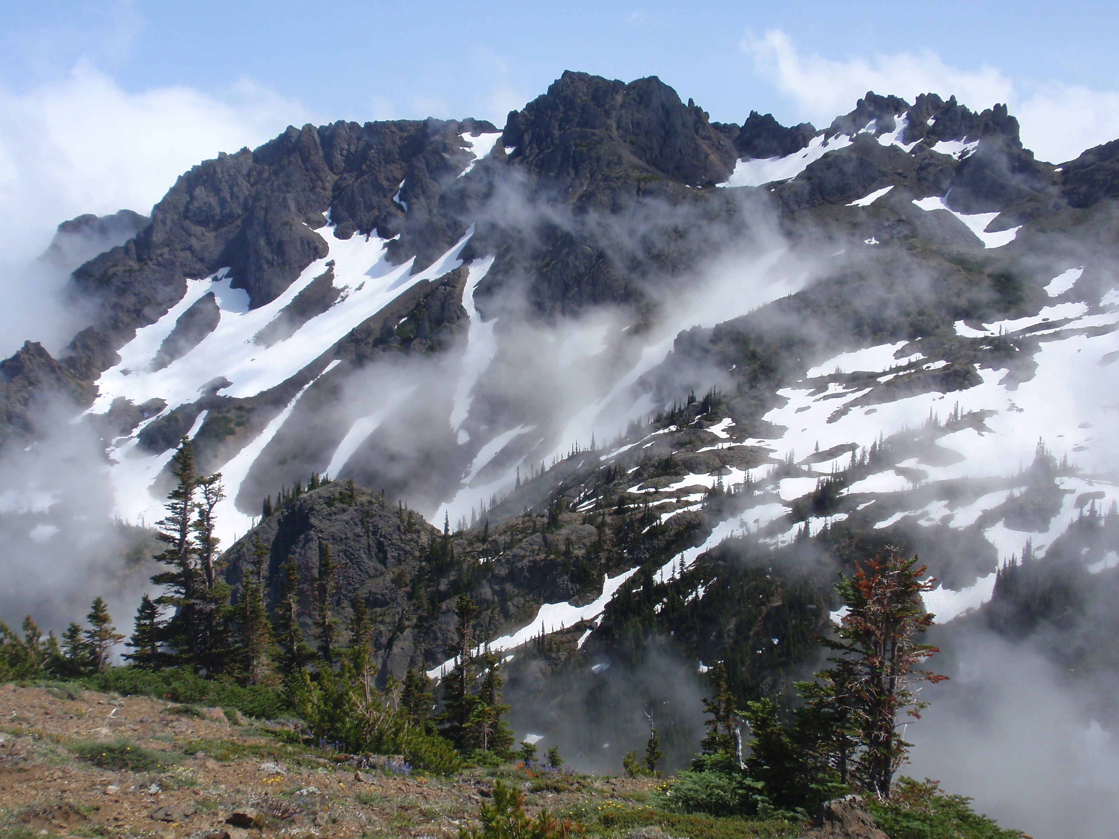 Looking south at Boulder Ridge from Marmot Pass area, Buckhorn Wilderness on the Olympic National Forest